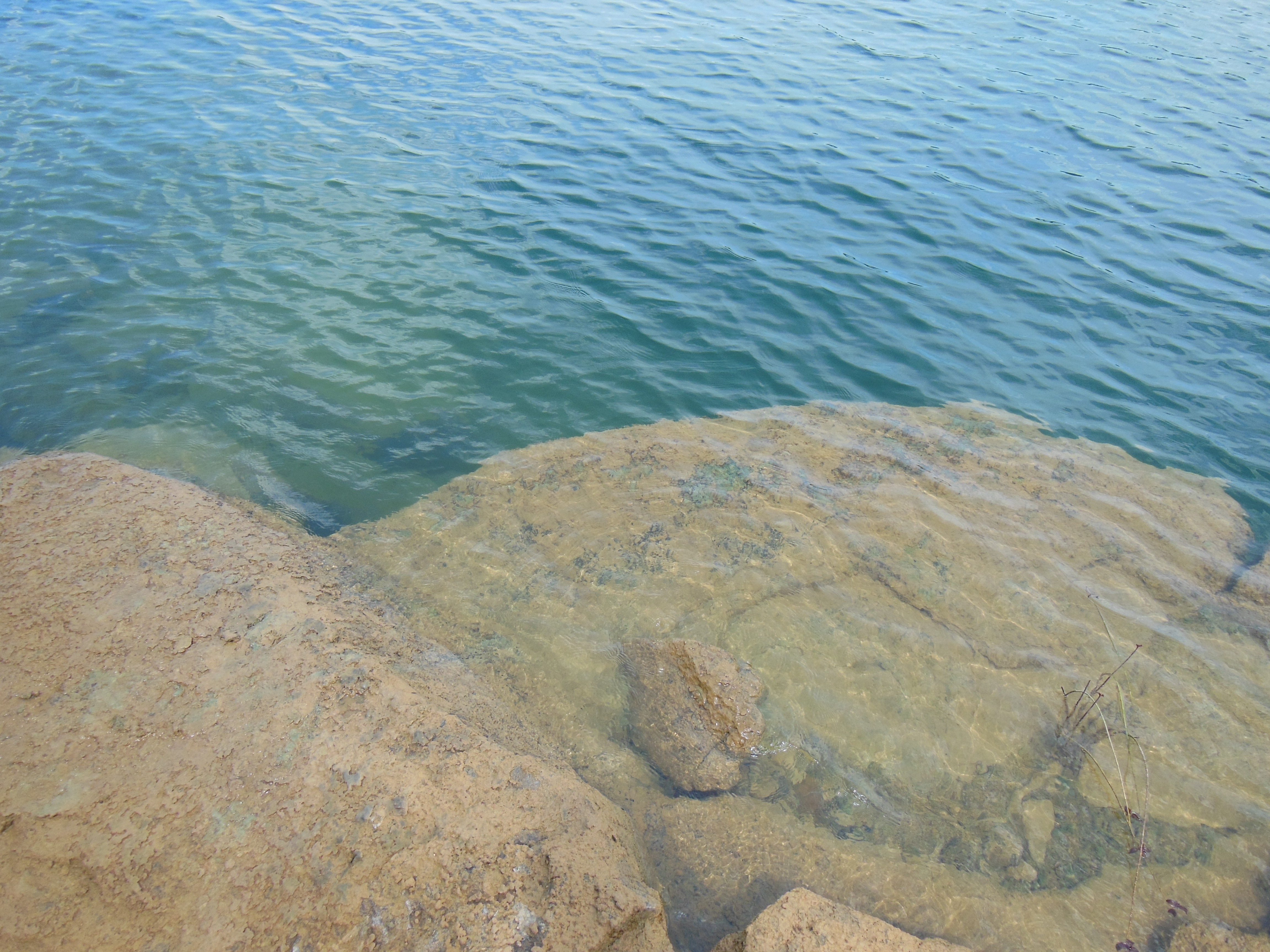 I am showing how clear the water is.